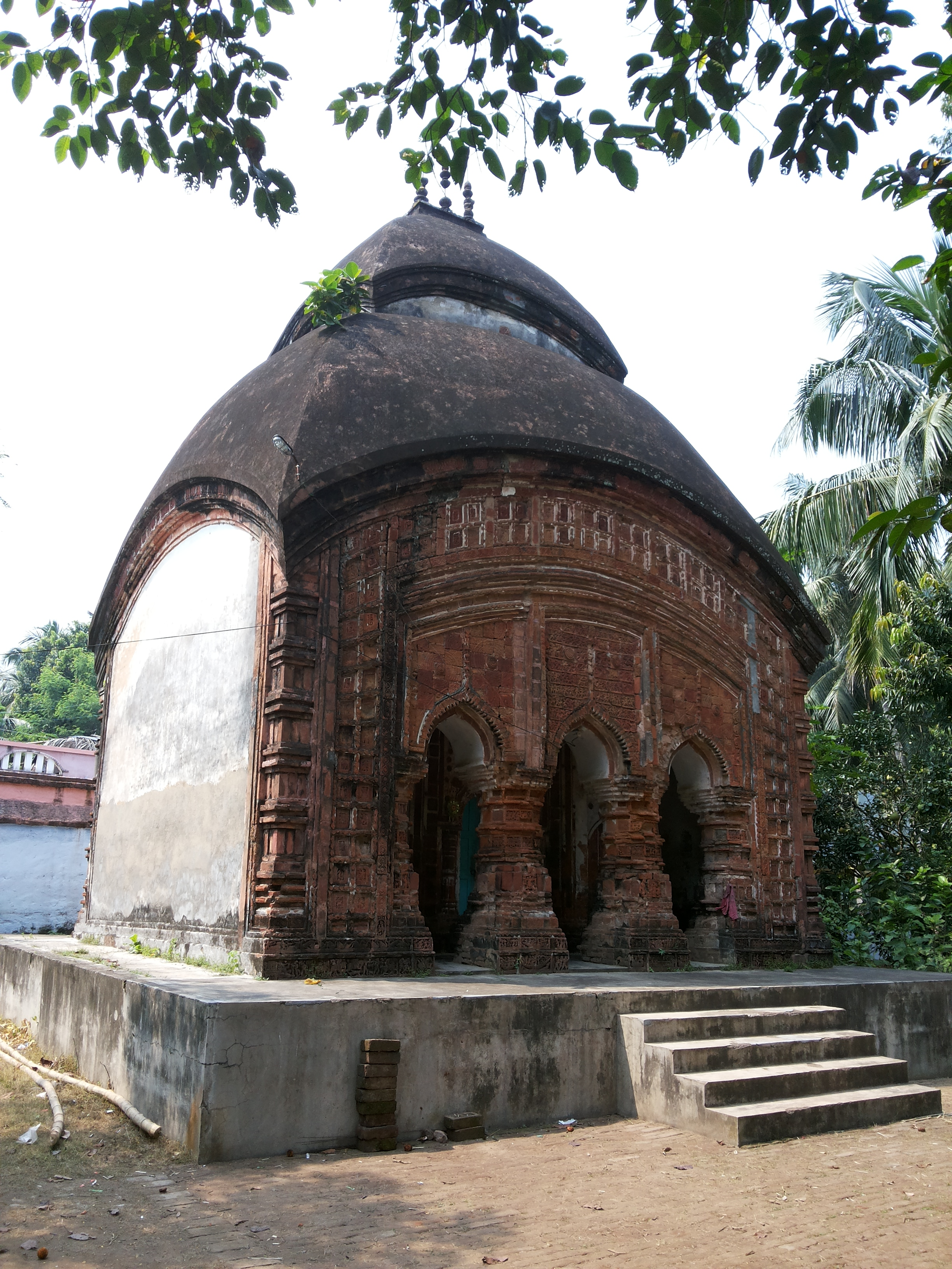 Raj Rajeswar temple at Dwarahatta